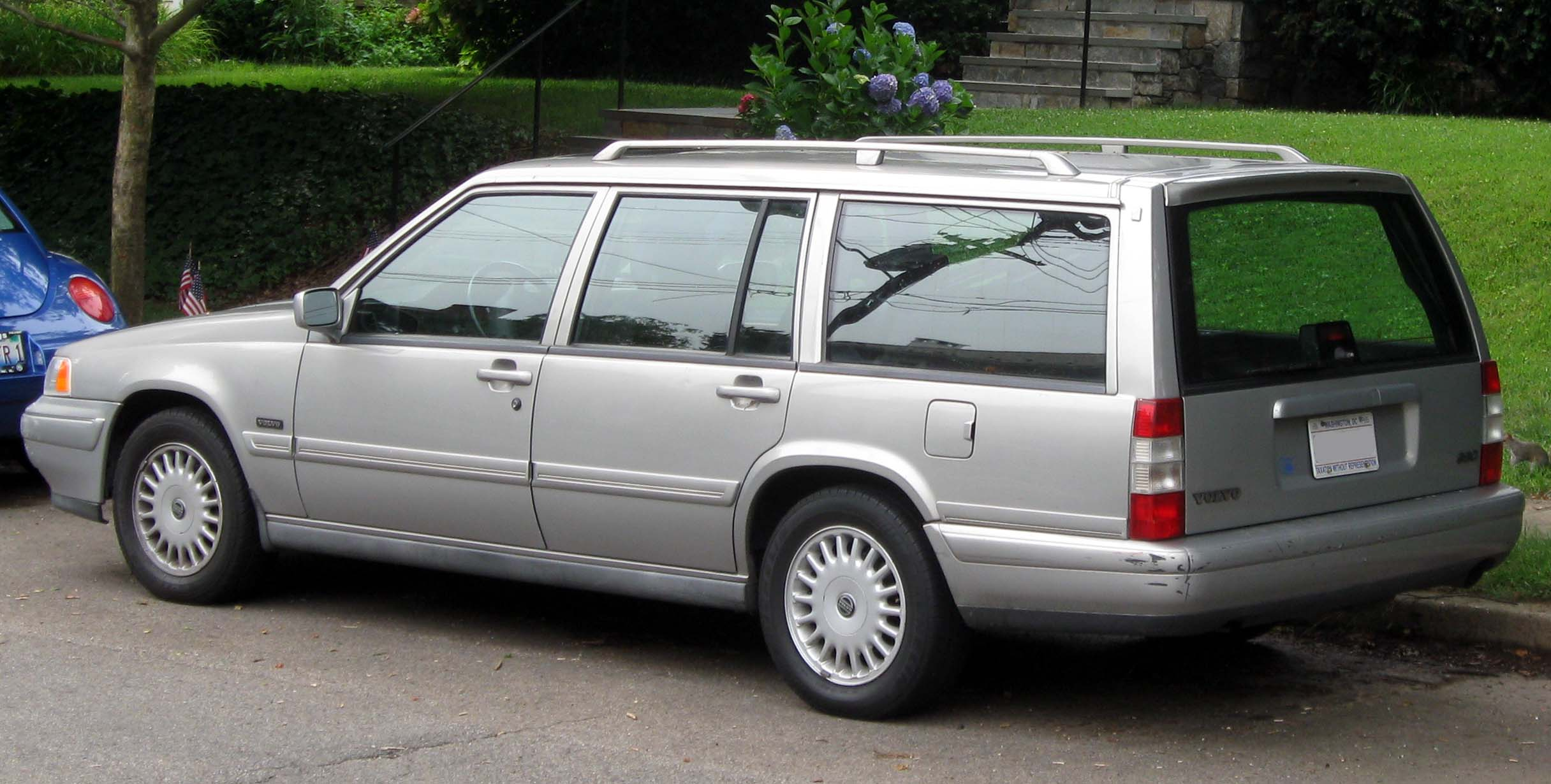 Volvo 960 photographed in Washington, D.C., USA